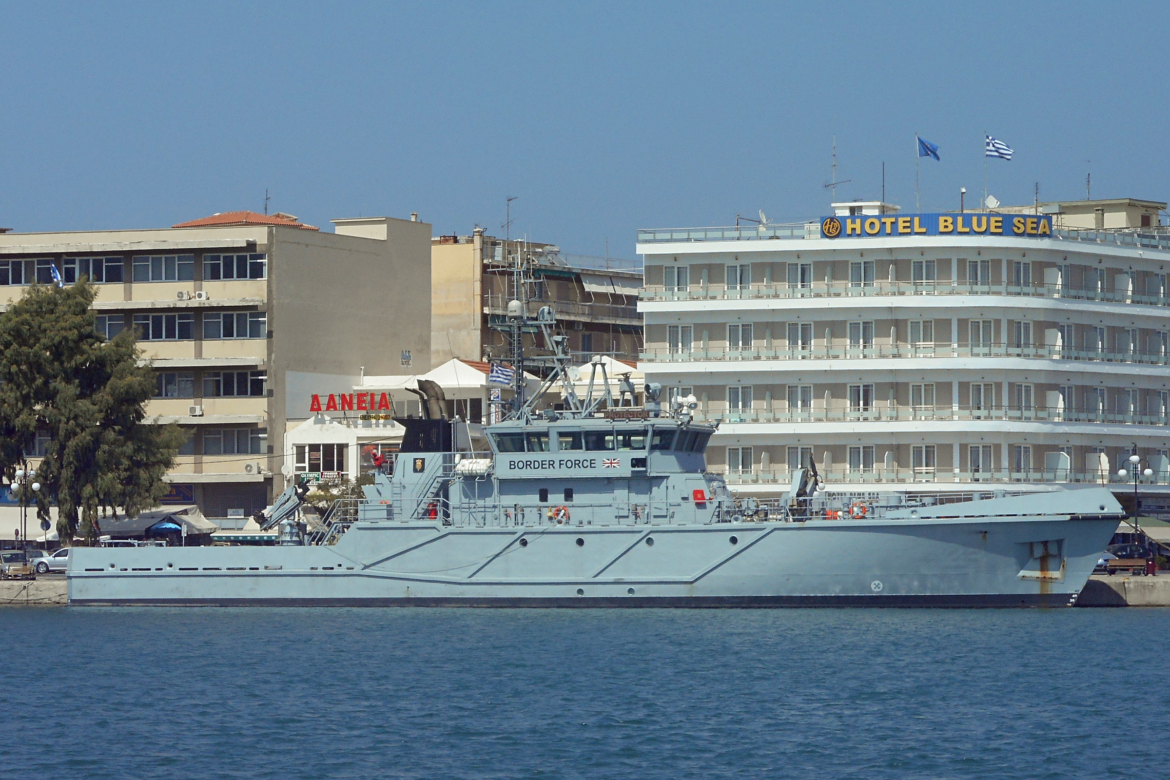 Telkkä-class cutter HMC Protector, 2GWY9, of the UK Border Force (IMO 4544107) in Mytilene port, Greece, during a FRONTEX mission.